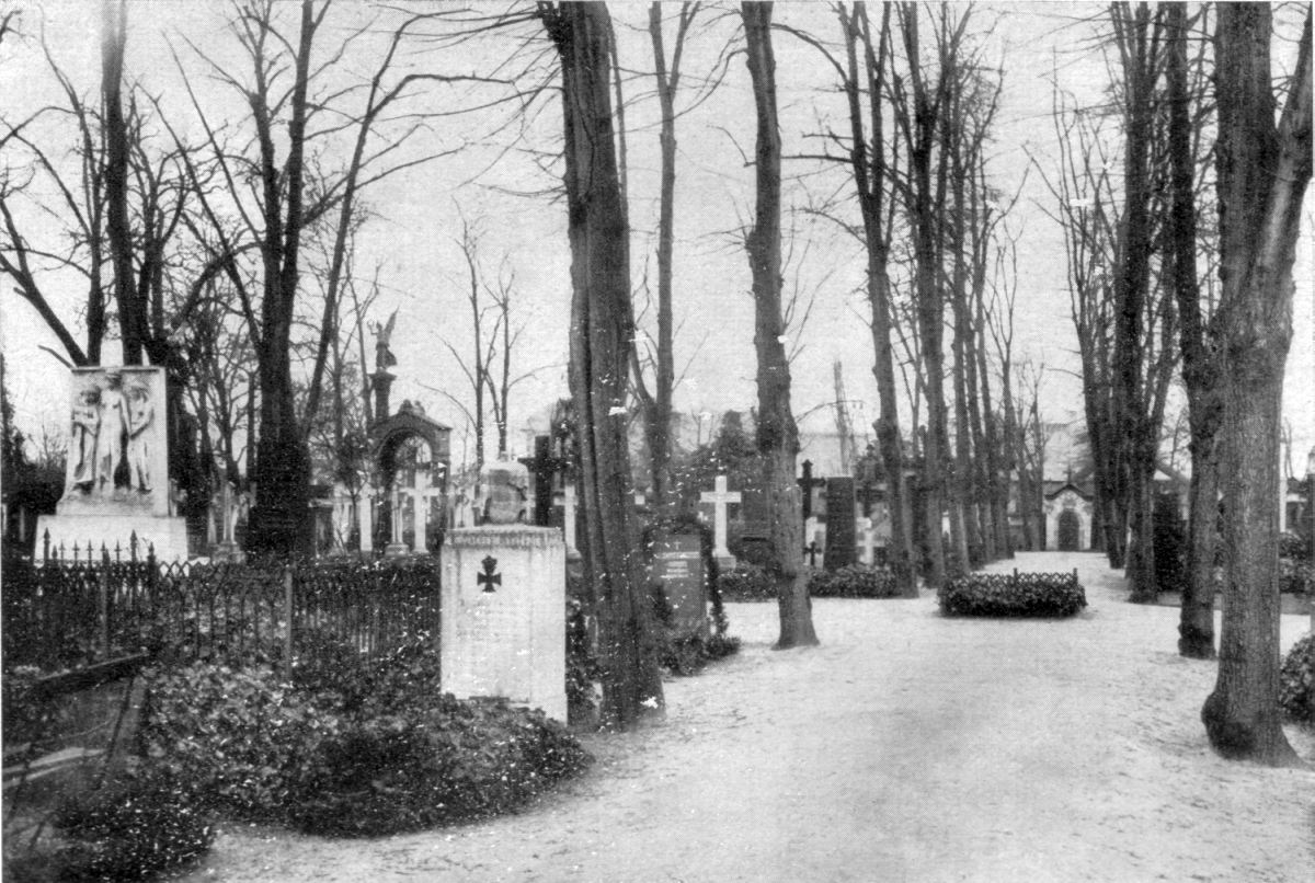 Invalidenfriedhof cemetery in Berlin in 1925